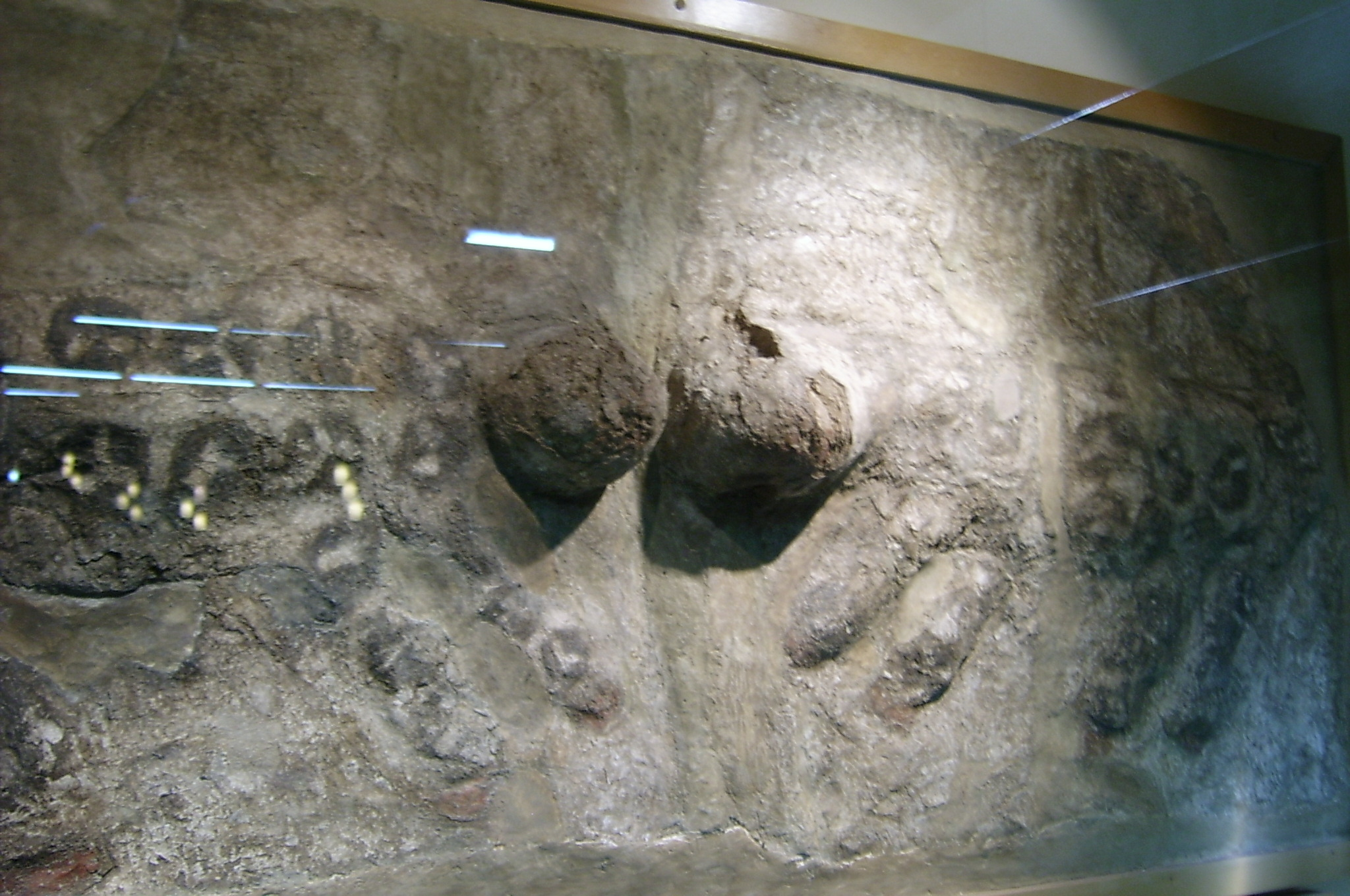 Leopard reliefs from Catal Hüyük in Angora Museum